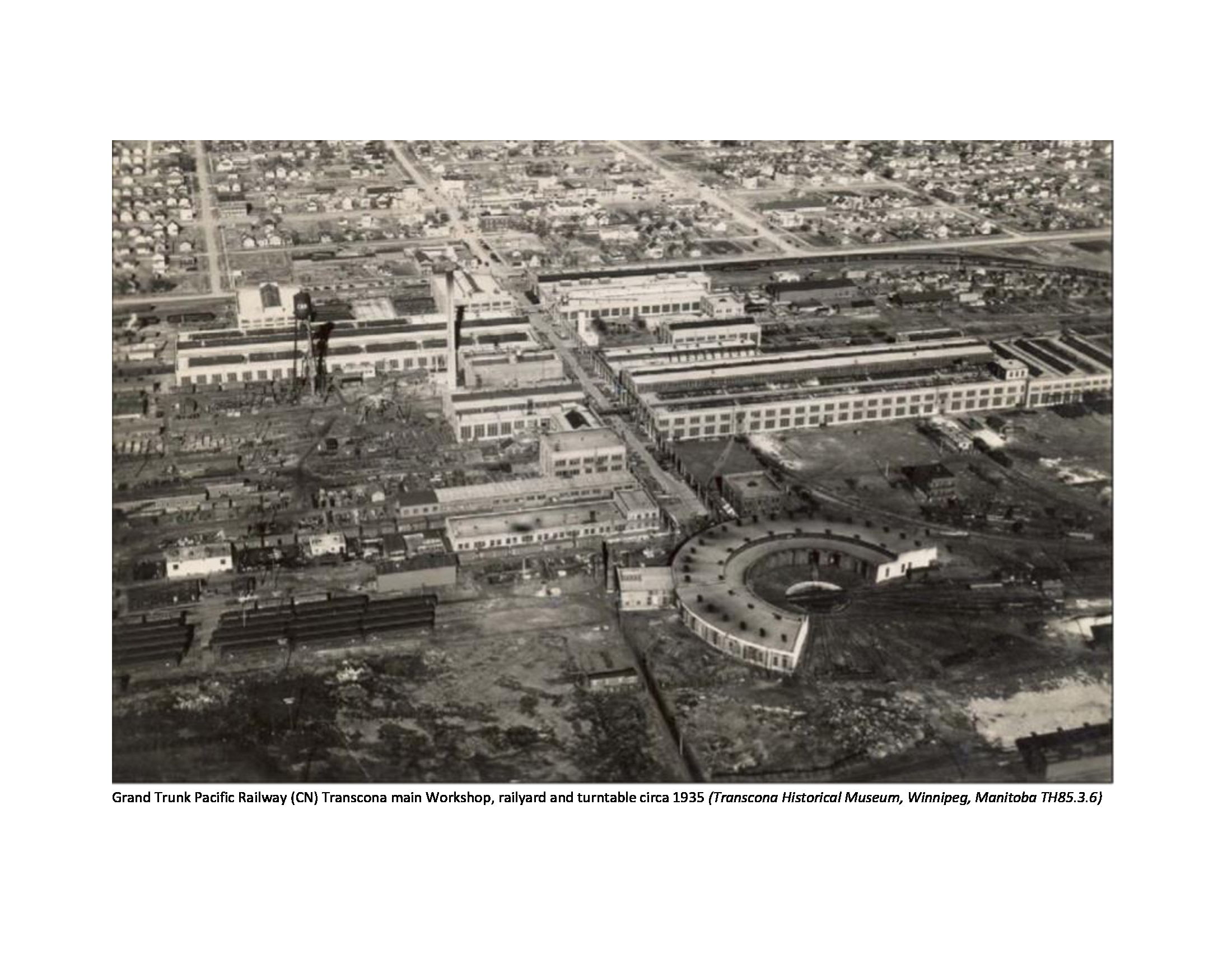 The National Transcontinental Railway west of Winnipeg was built by the Grand Trunk Railway and was entirely financed by the Canadian Government. The GTPR was bankrupt soon after the construction and was nationalized by the Canadian Government.